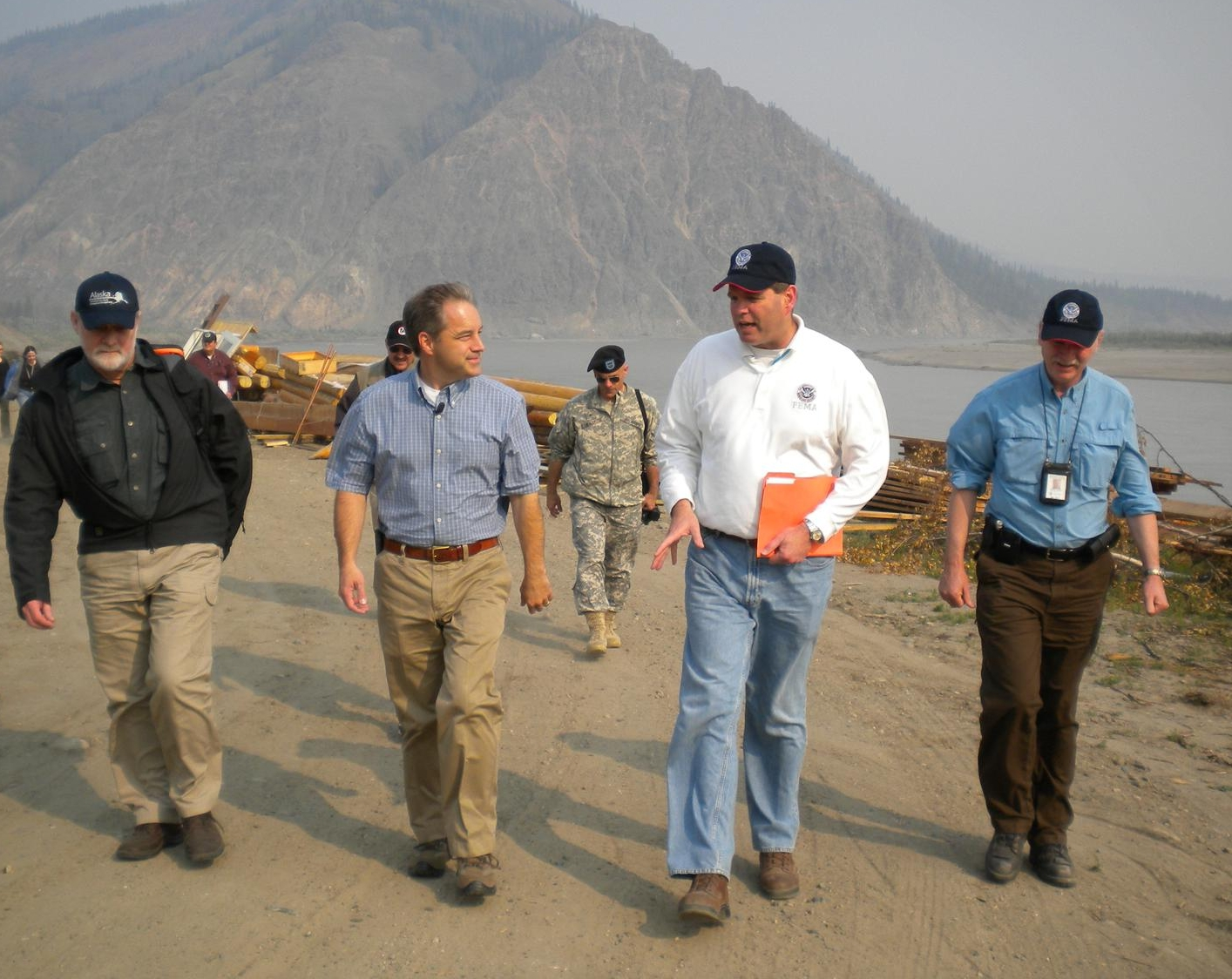 Eagle, AK, August 5, 2009 -- Alaska Governor Sean Parnell (center left) is briefed on recovery progress by FEMA Federal Coordinating Officer Doug Mayne (center right). Of the community's 58 residences, 13 were destroyed and 8 were damaged, in addition to multiple businesses damaged or destroyed. - Jack Heesch/FEMA